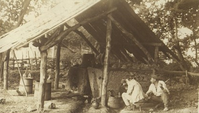 Bulgaria